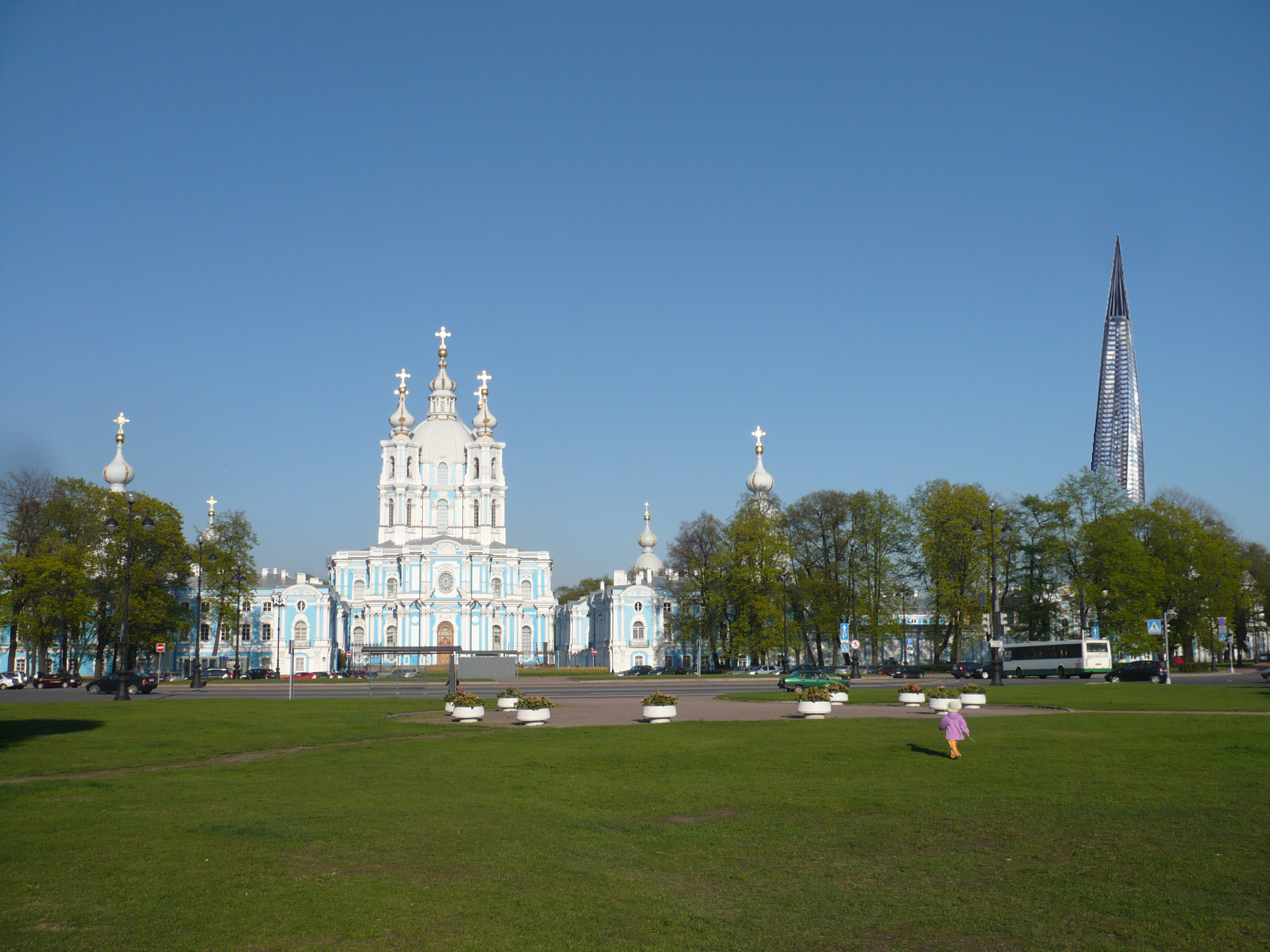 Assumed view of Okhta Center from Rasstrelli square